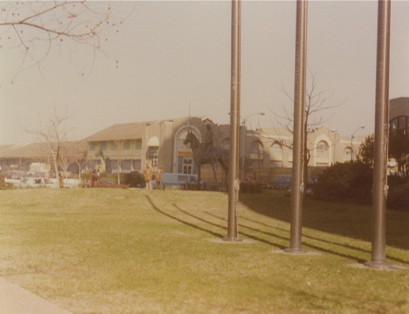 Spanish Plaza, New Orleans, beside the World Trade Mart at the foot of Canal Street. Equestrian statue seen in background is of Governor Bernardo de Galvez.